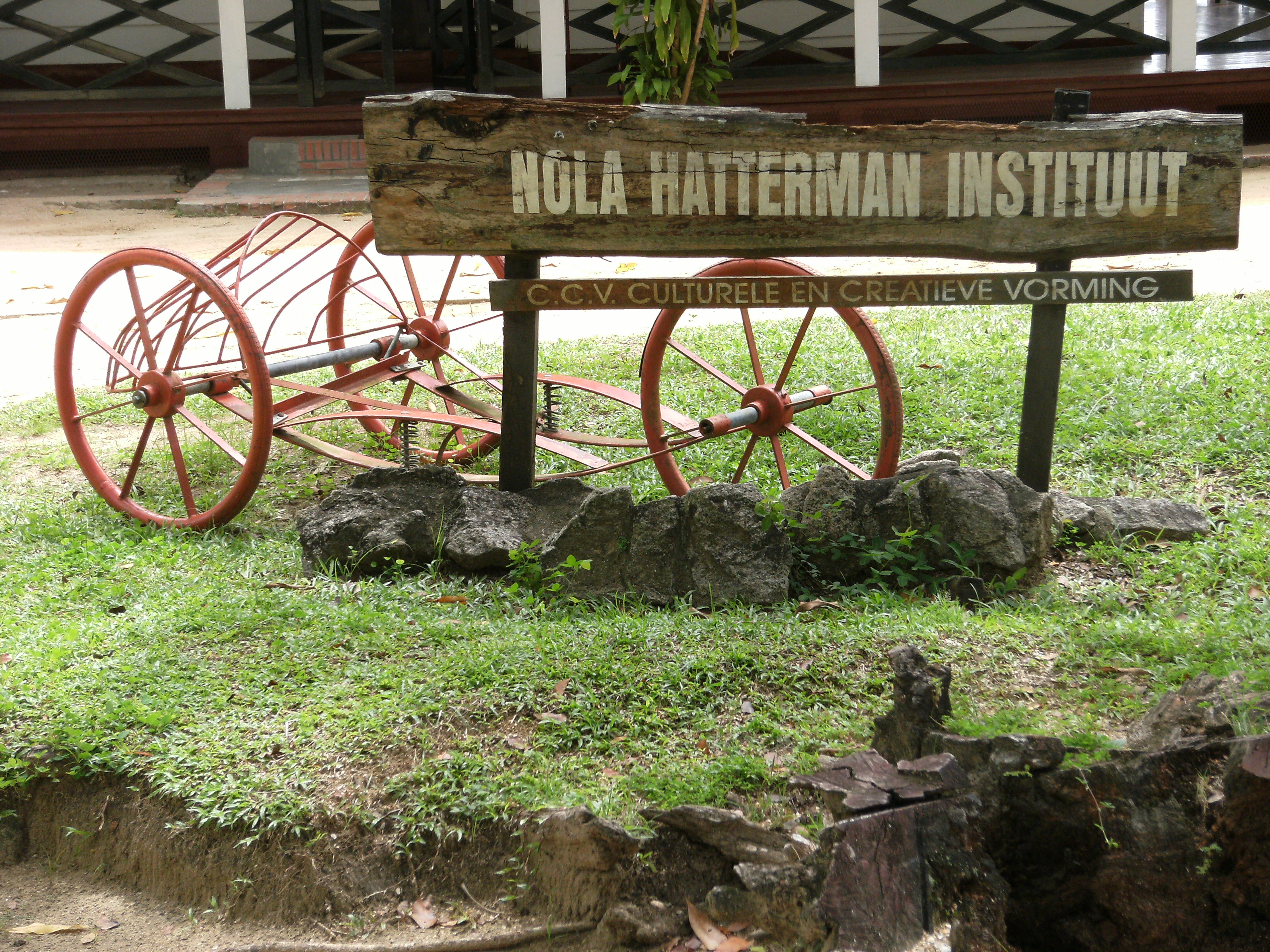 Entrance_sign_of_Nola_Hatterman_Instituut.